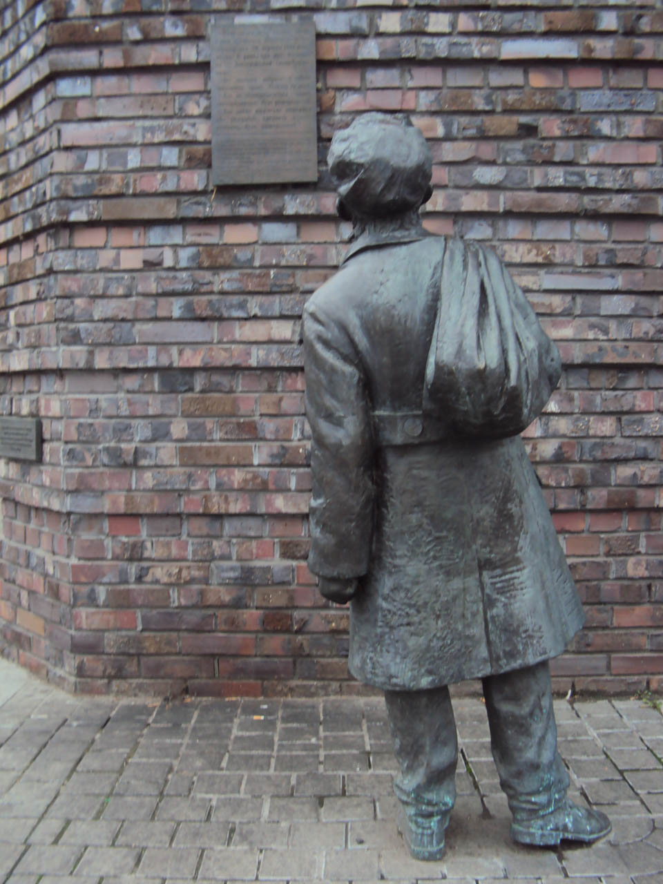 Memorial sign to tne writer Anatoly Kuznetsov in Kyiv